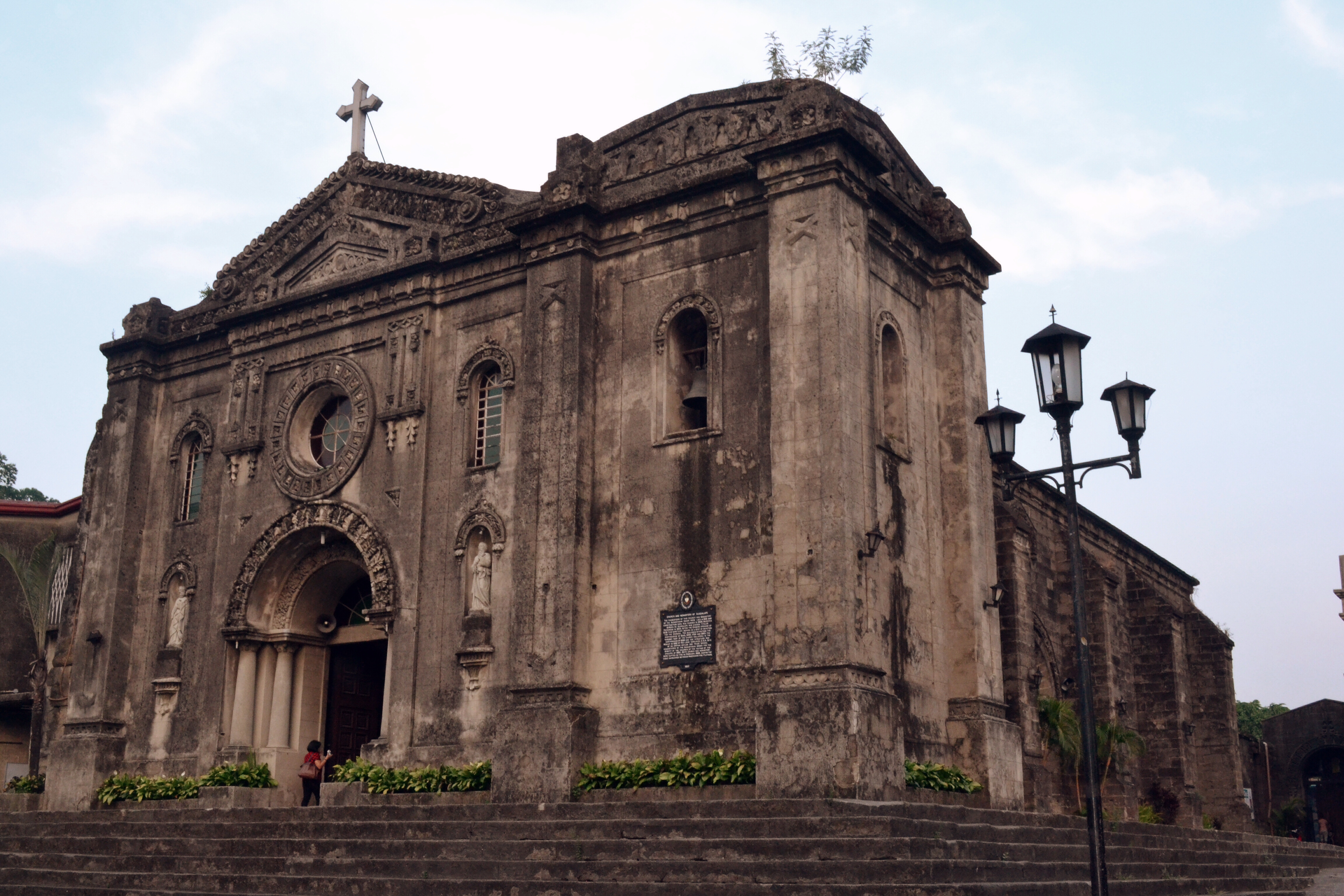 Facade of Our Lady of Grace Church in Makati